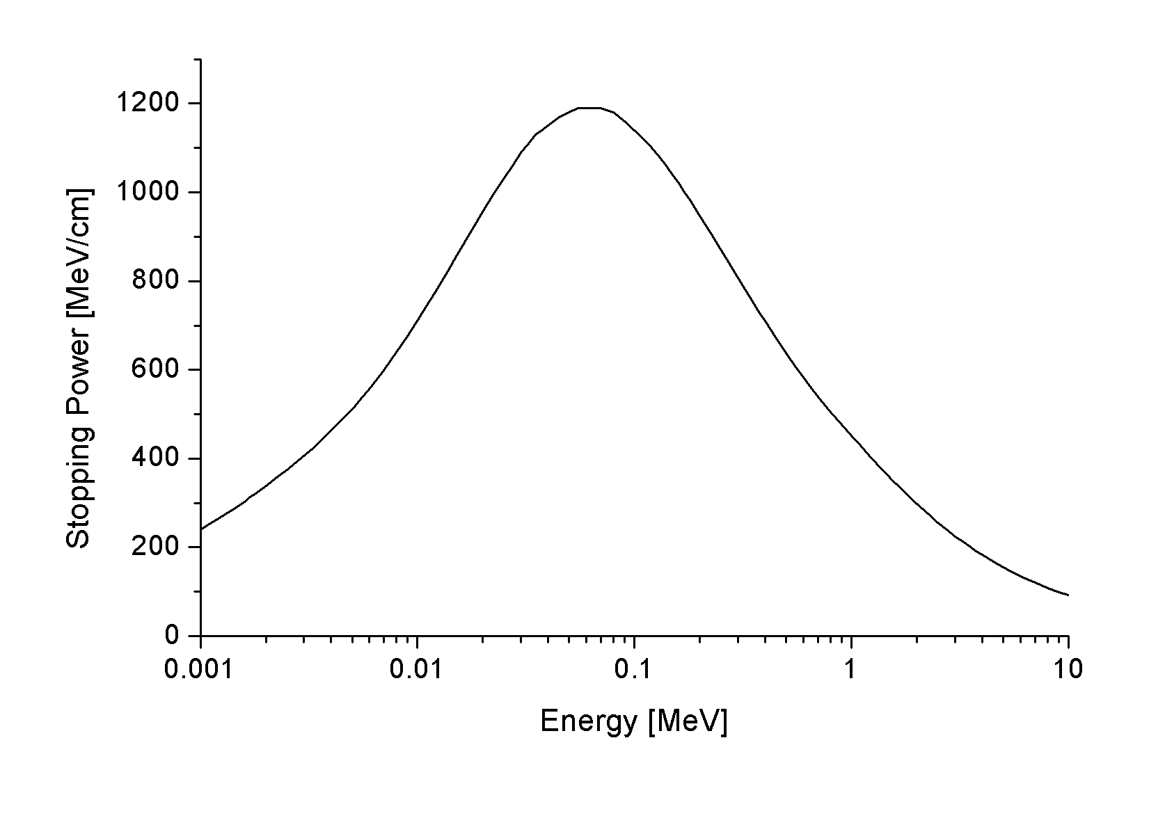 Stopping power of aluminum for protons, versus energy